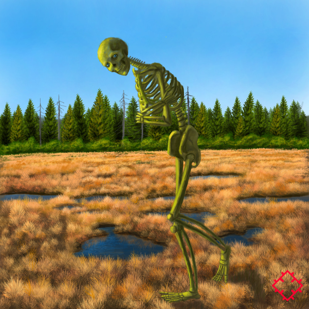 Walking wimpier